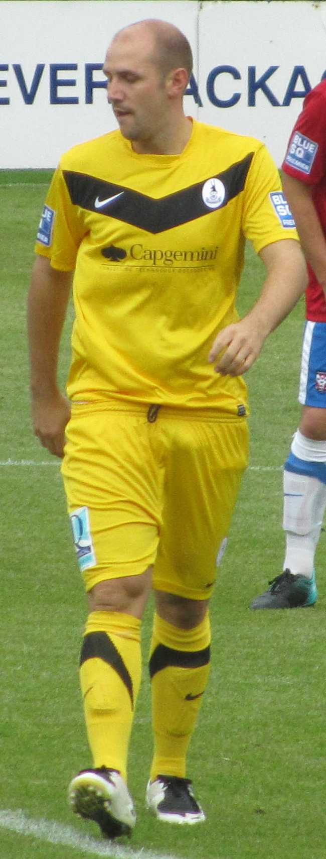 Craig Farrell